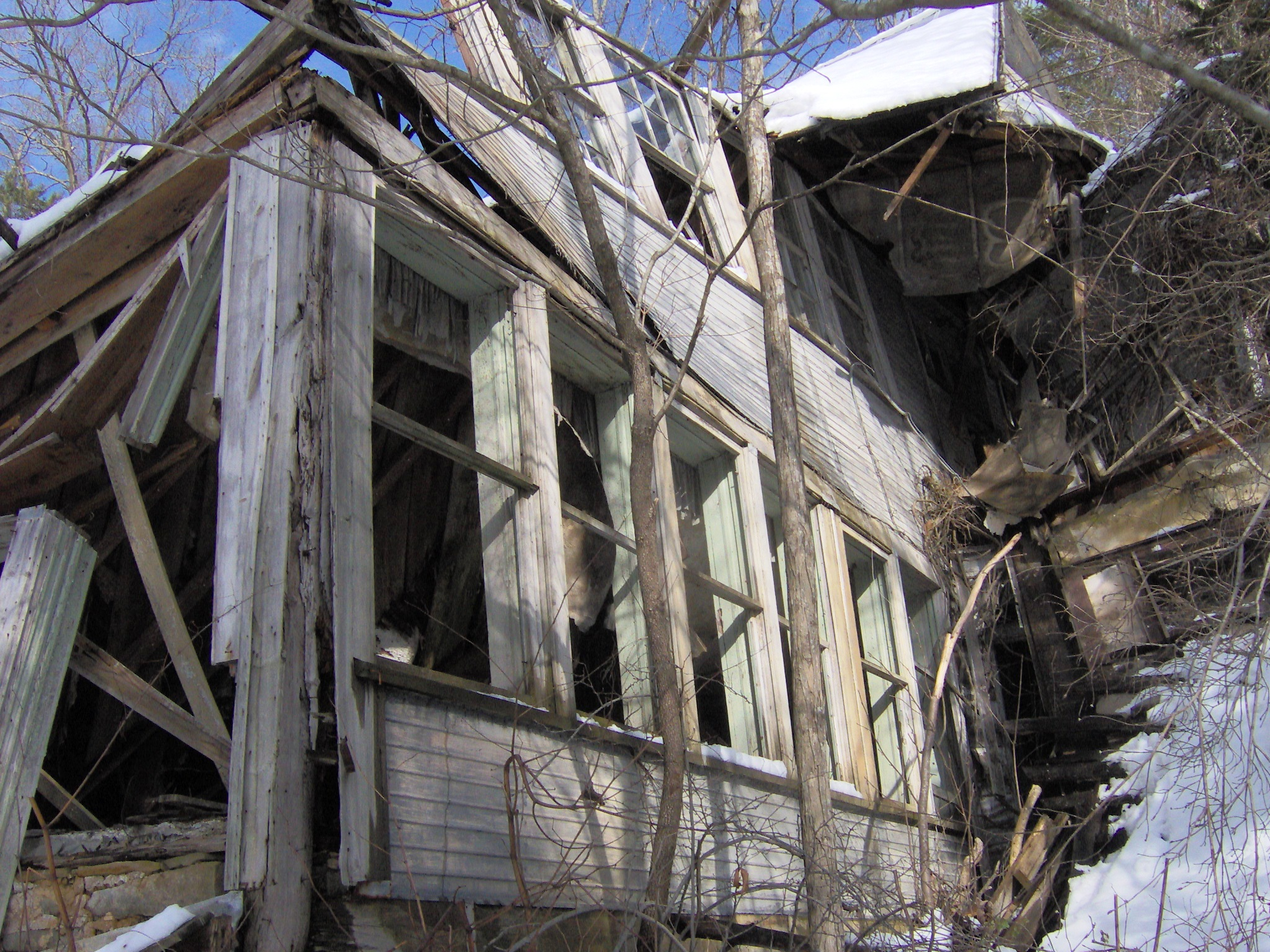 The ruins of the Vardy Community School in the Vardy Blackwater community (Newmans Ridge area) of Hancock County, Tennessee, USA. This view is of the southwest corner. Special thanks to John Stansberry for helping find this place, and to local resident David Collins for showing us around.